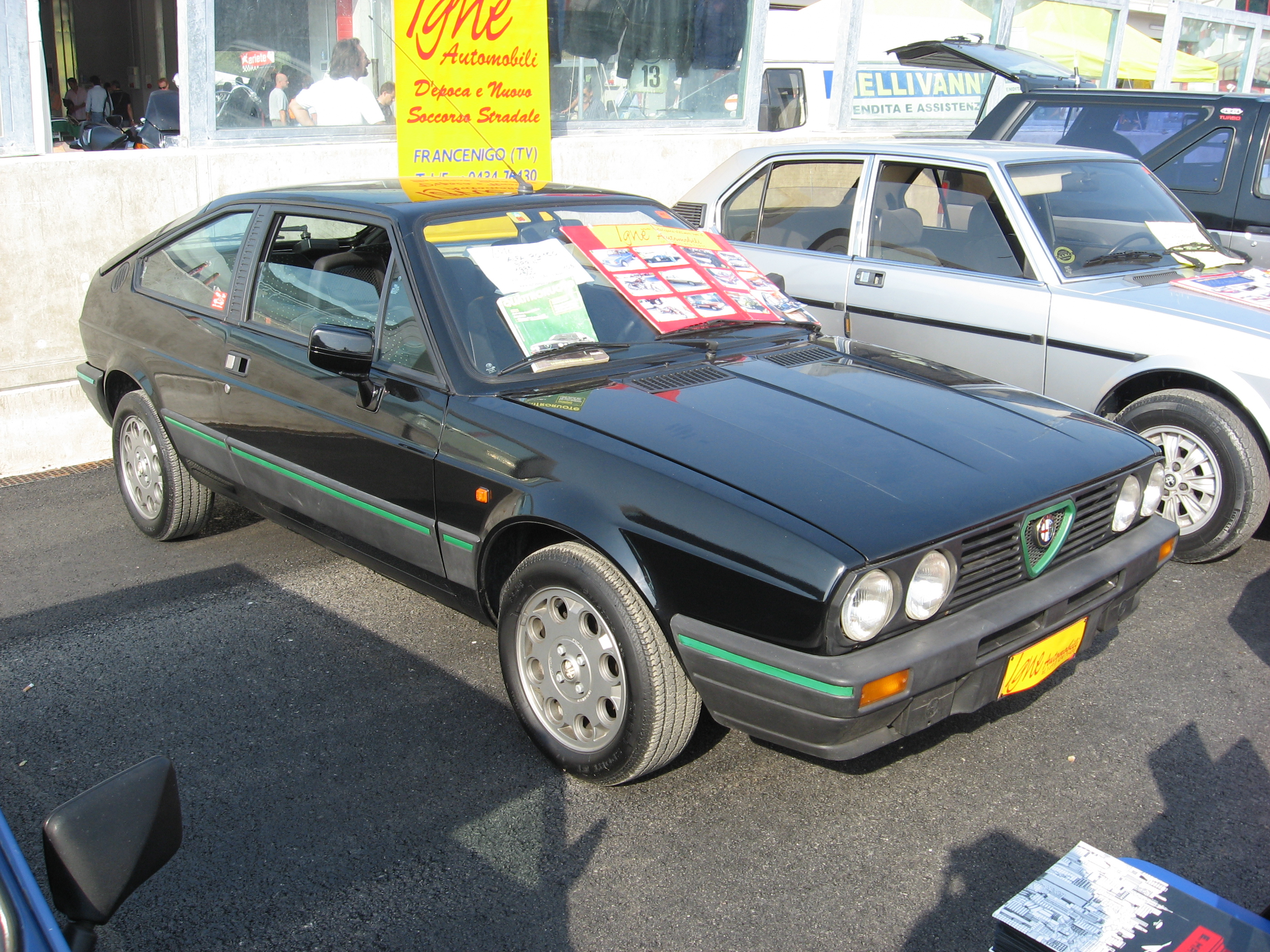 Subject: Alfa Romeo Sprint Author: Luc106 Date: September 15th, 2007 Place/Country: Imola Circuit, Imola (BO), Italy I release all rights in the public domain